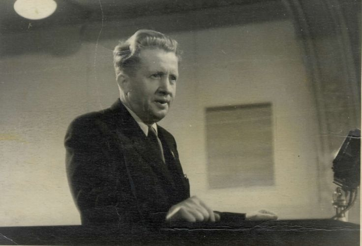 Miha Marinko (1900-1983), Slovene communist politician and partisan